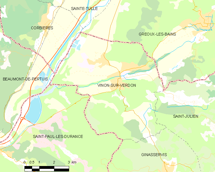 Map of French municipality Vinon-sur-Verdon